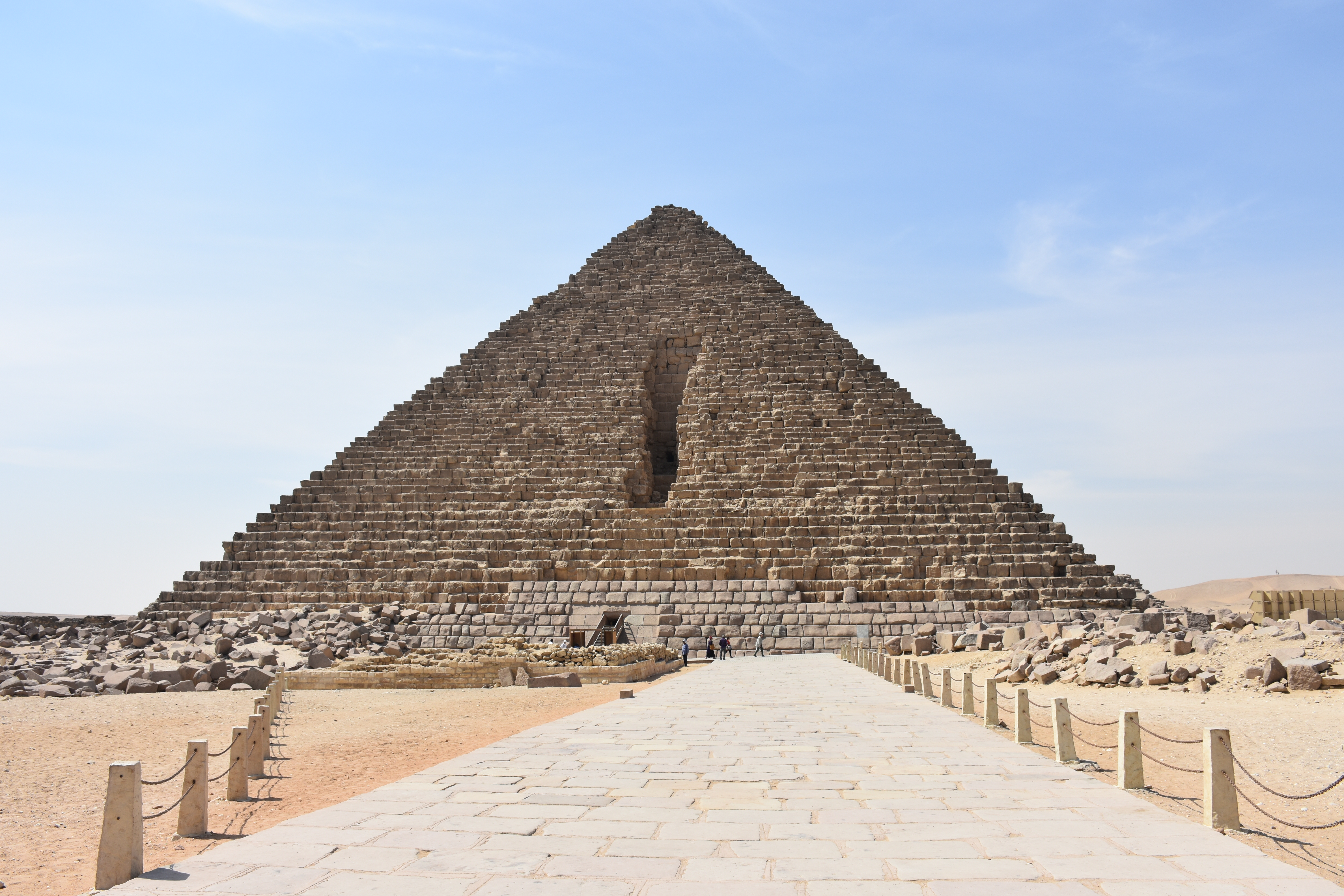 The Pyramid of Menkaure in Giza in May of 2015